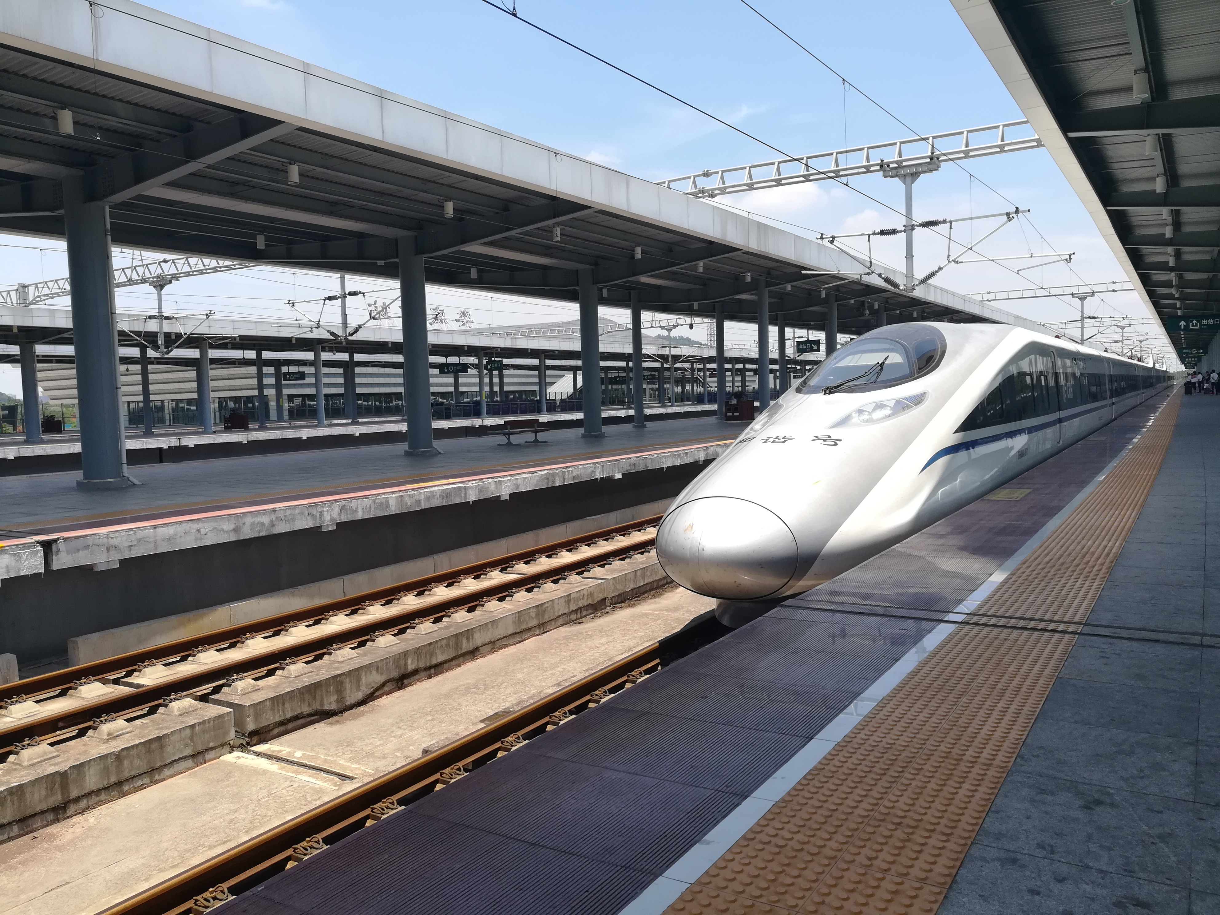 Loudi South railway station is a railway station of Hangchangkun Passenger Railway located in Hunan, China.